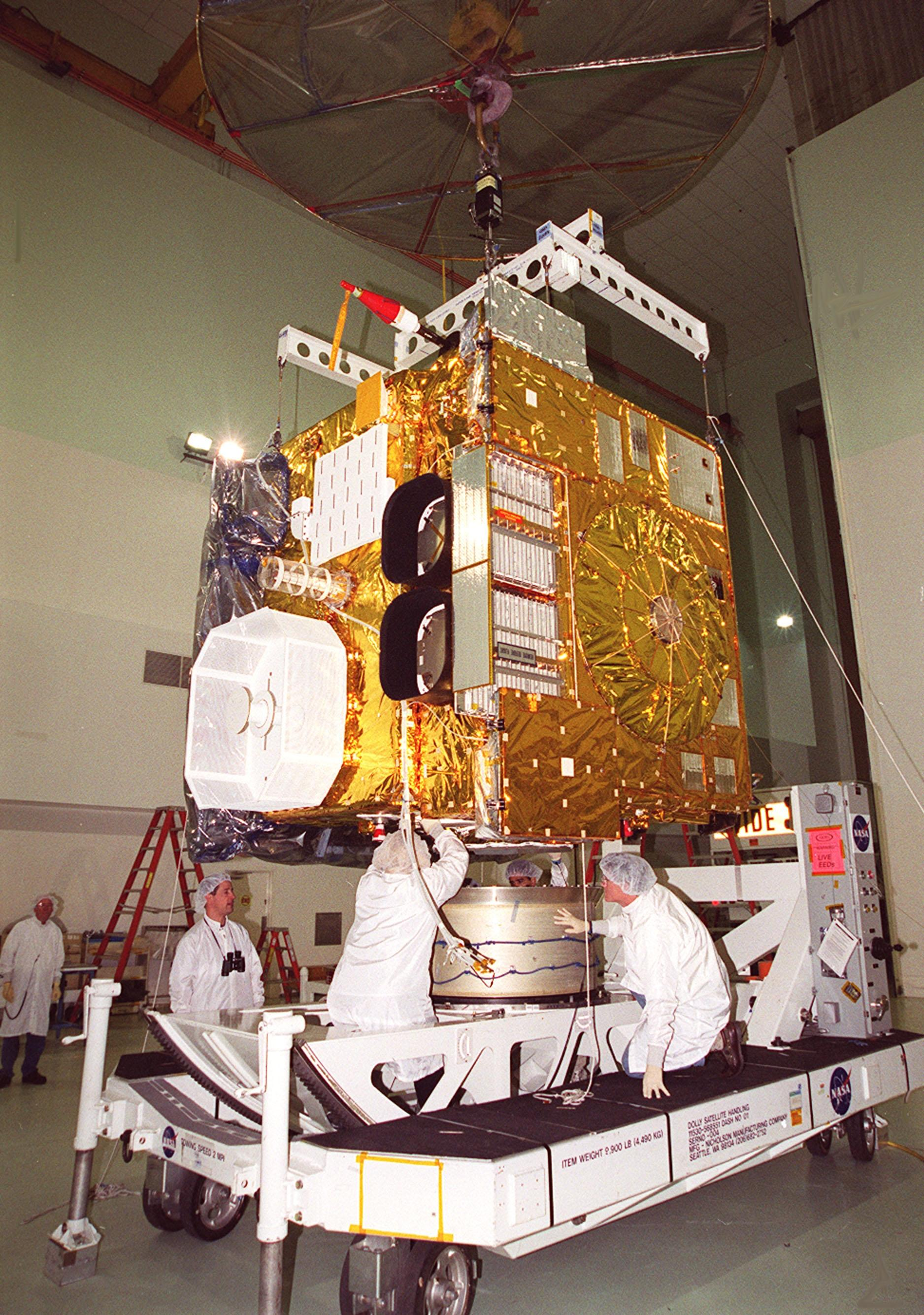 Workers at Astrotech, Titusville, Fla., work on the GOES-M satellite. The GOES-M provides weather imagery and quantitative sounding data used to support weather forecasting, severe storm tracking and meteorological research. The satellite is undergoing testing at Astrotech before its scheduled launch July 12 on an Atlas-IIA booster, Centaur upper stage from Cape Canaveral Air Force Station